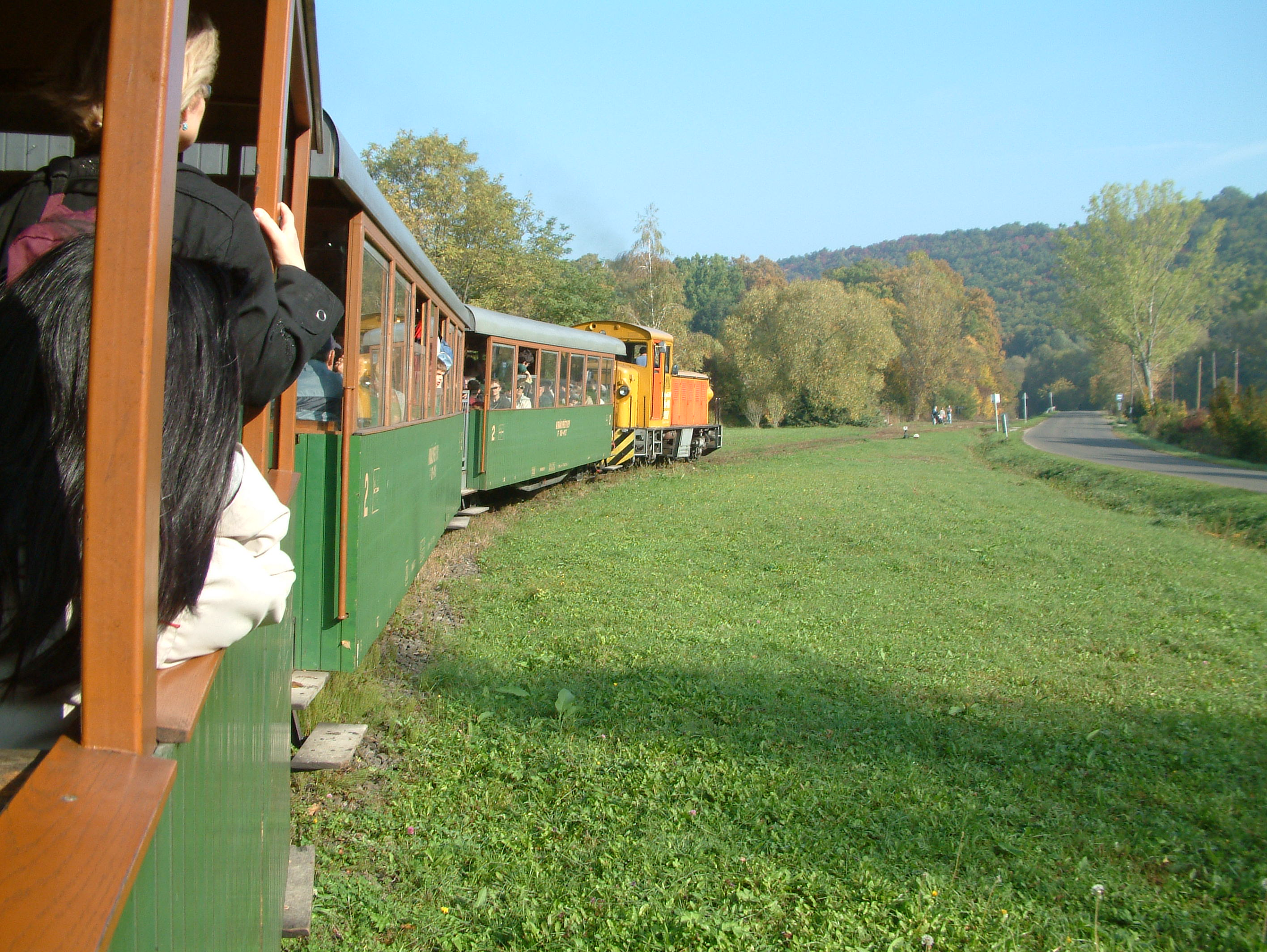 Királyrét Forest Railway between Kismaros and Szokolya